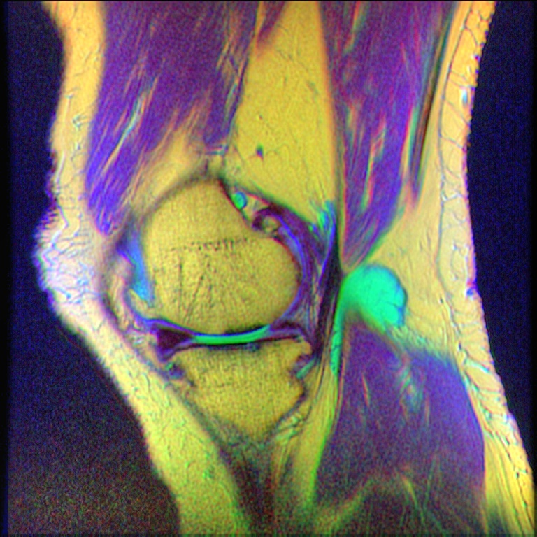 MRI images of the knee